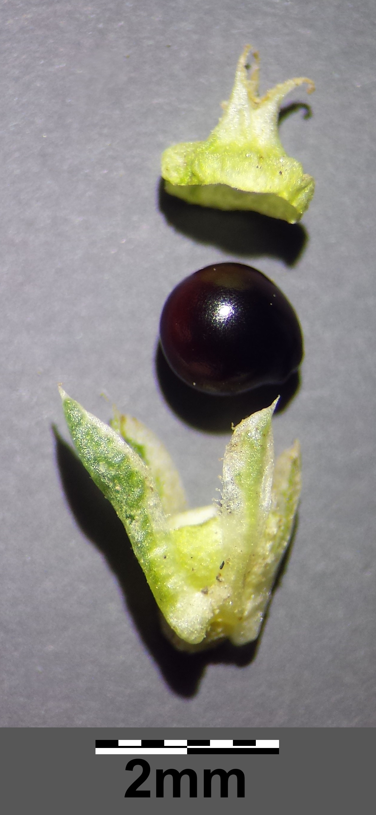 Fruit with 5 perigon leaves, opened capsule and seed Taxonym: Amaranthus blitoides ss Fischer et al. EfÖLS 2008 ISBN 978-3-85474-187-9 Location: Hasswellgasse, Vienna-Floridsdorf - ca. 160 m a.s.l. Habitat: field